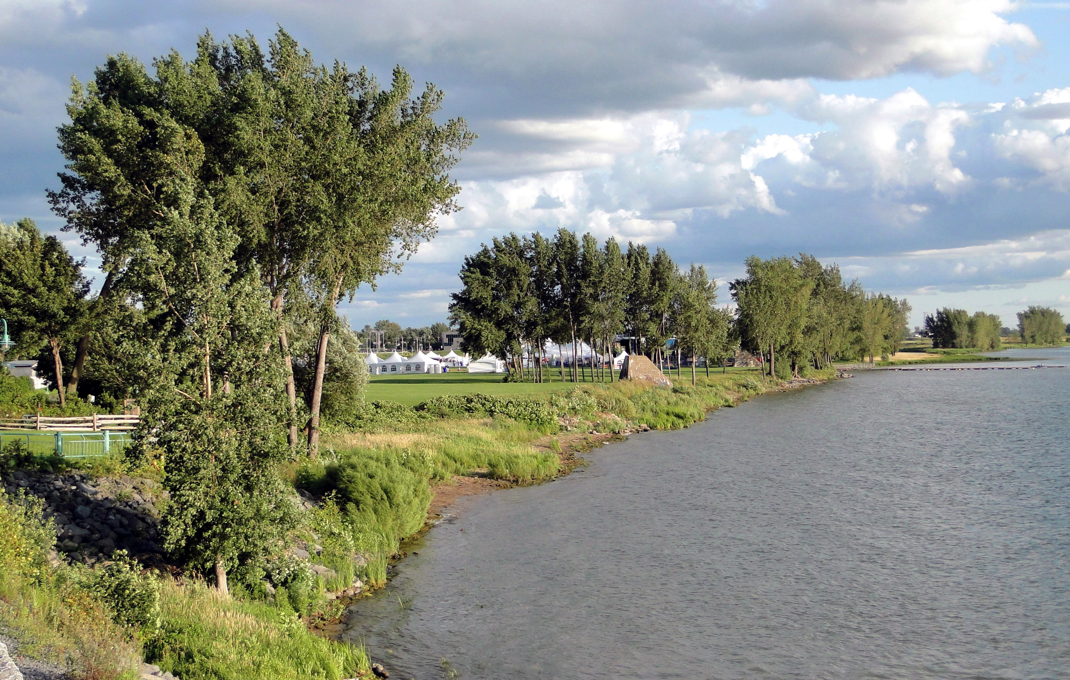 Parc de la Commune on Saint Lawrence River, Varennes, province of Quebec, Canada